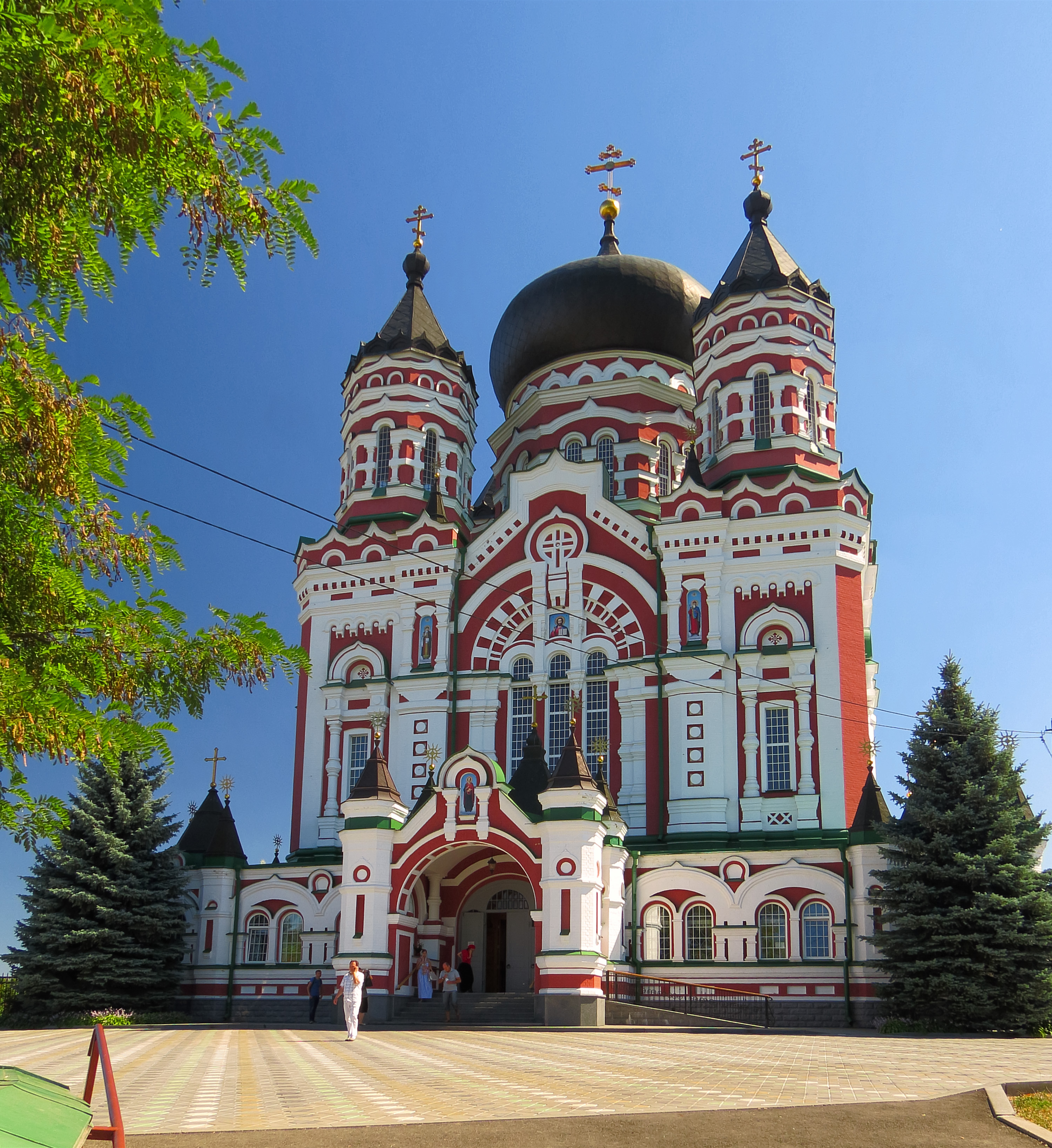 Saint Pantaleon cathedral, Feofania, Kiev, Ukraine.